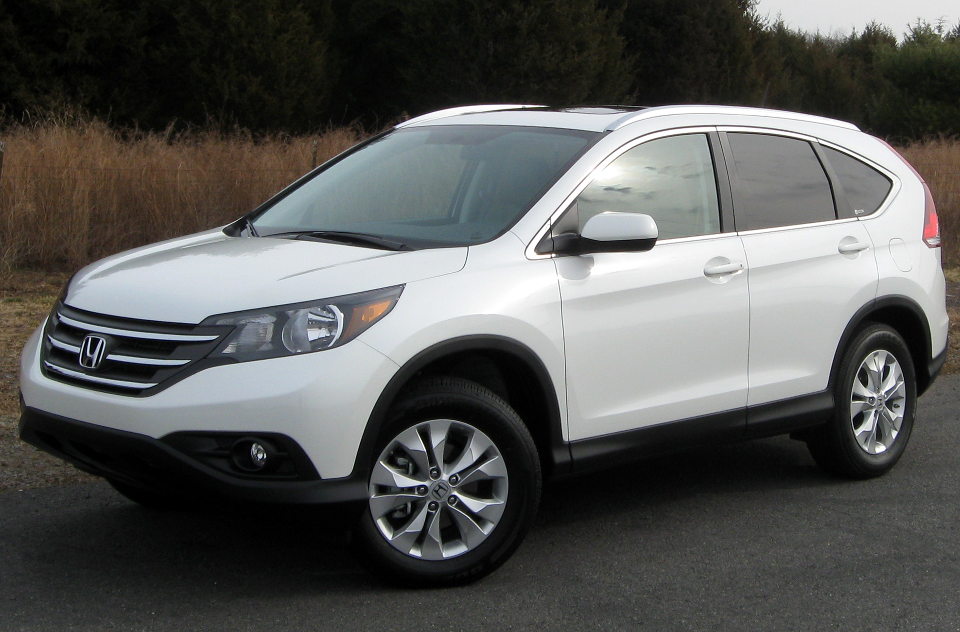 2012 Honda CR-V photographed in Centreville, Virginia, USA.